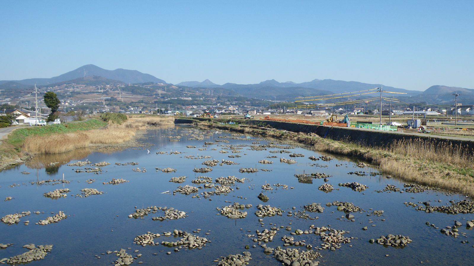 Kori river and Tara massif,Omura city,Nagasaki